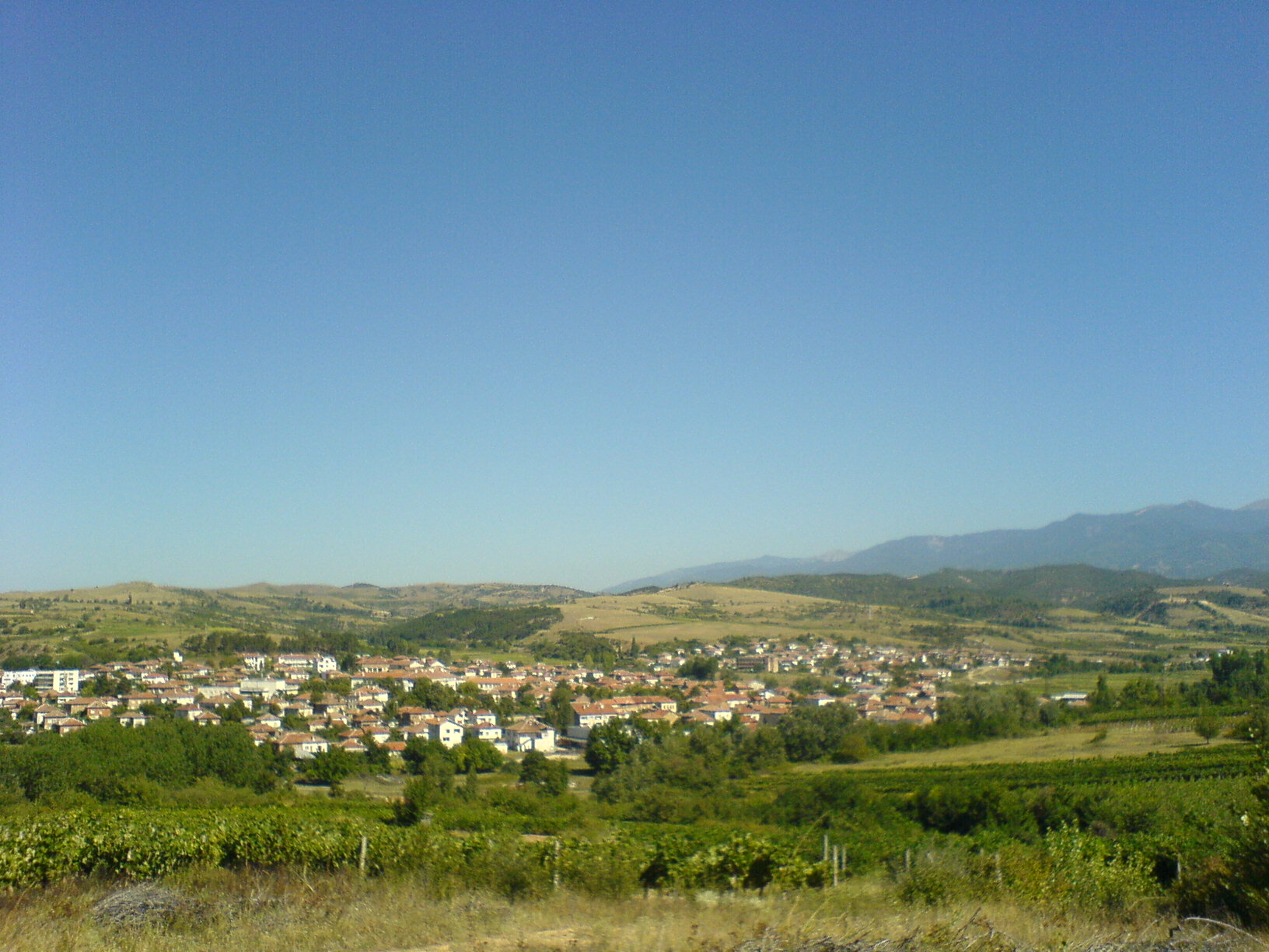 View to village Katuntsi, Bulgaria